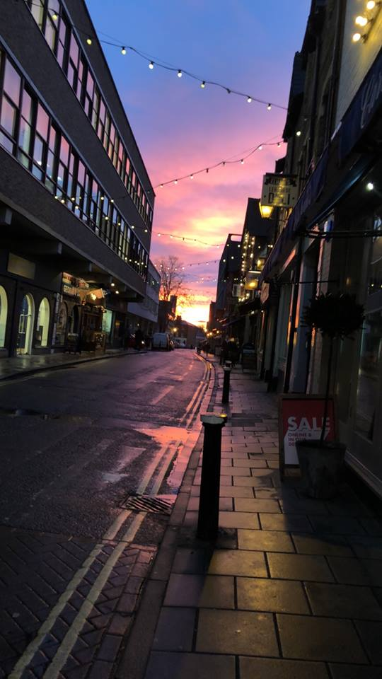 Little Clarendon Street, Oxford, sunset